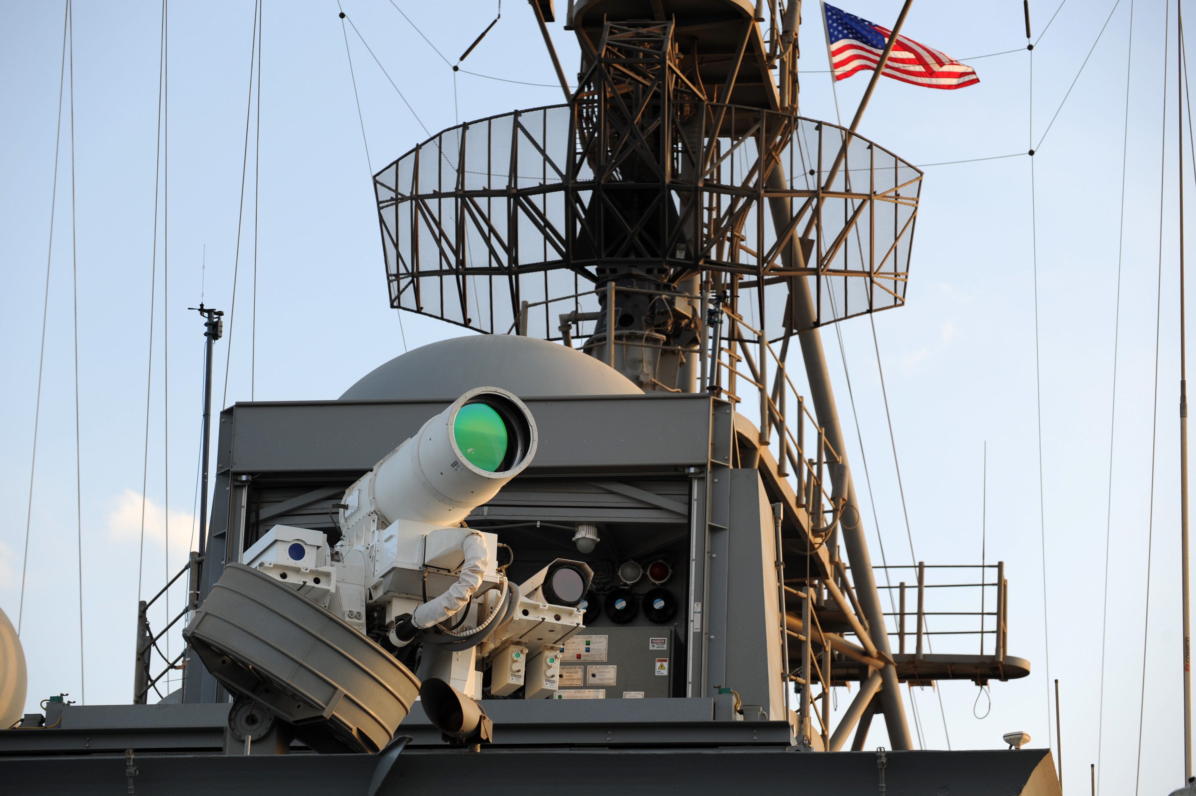 The U.S. Navy Afloat Forward Staging Base (Interim) USS Ponce (AFSB(I)-15) conducts an operational demonstration of the Office of Naval Research (ONR)-sponsored Laser Weapon System (LaWS) while deployed to the Arabian Gulf.